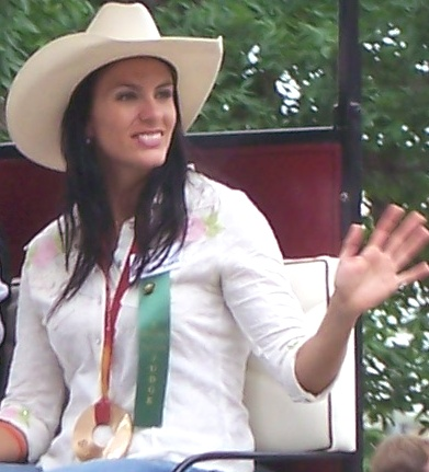 Mellisa_Hollingsworth at the 2008 Calgary Stampede Parade